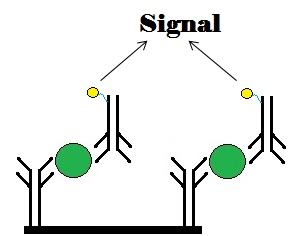 This image illustrates the components of a two-site, noncompetitive immunoassay. It may also by used to illustrate a "sandwich" or ELISA assay.